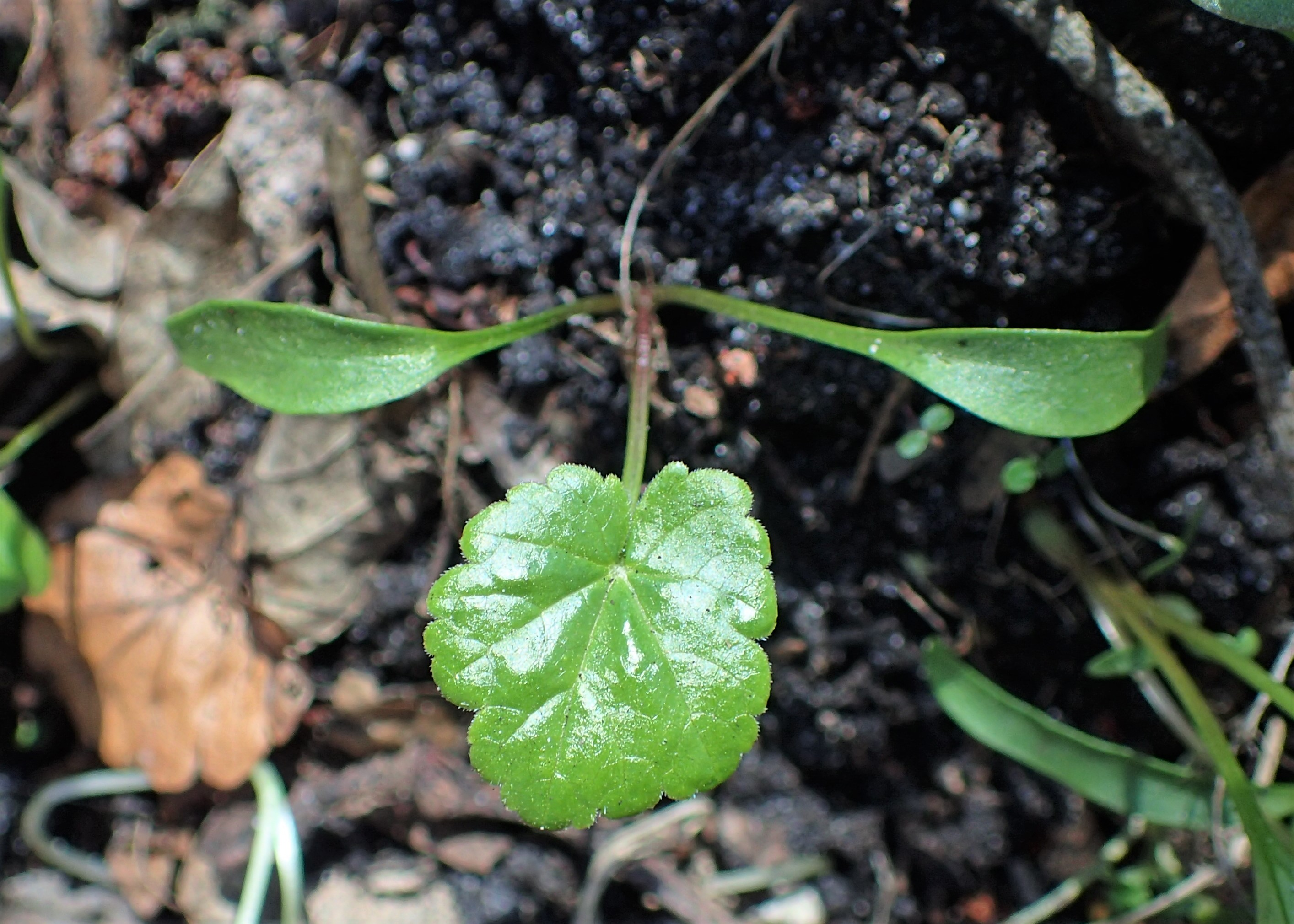 Heracleum sosnowskyi seedling in Krzywice near Nowogard, NW Poland